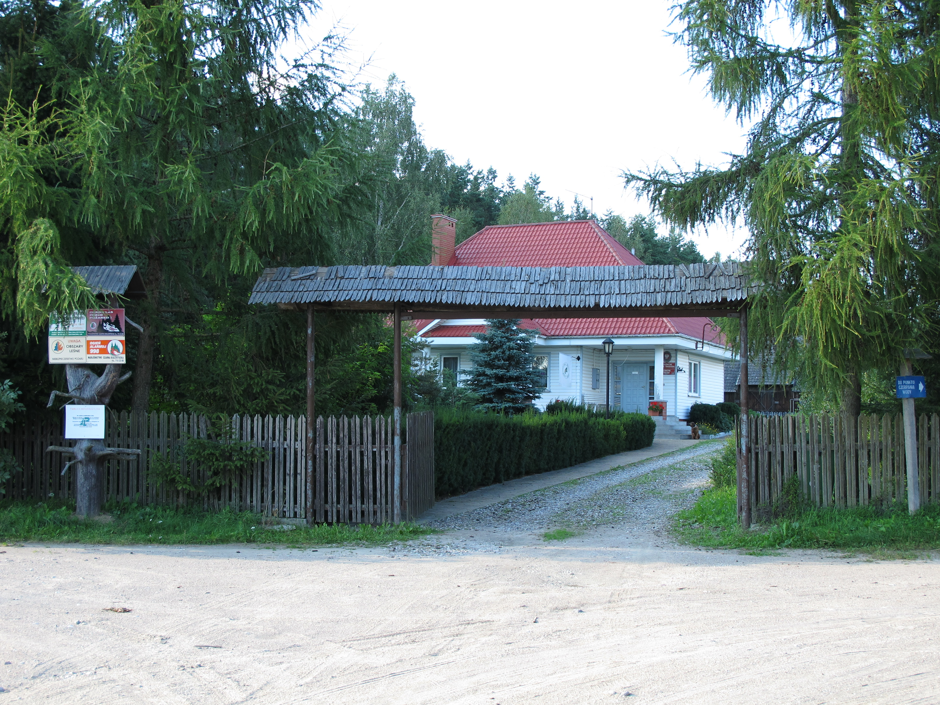 Bogusze forestry office in Podkantorówka hamlet, gmina Sokółka, podlaskie, Poland